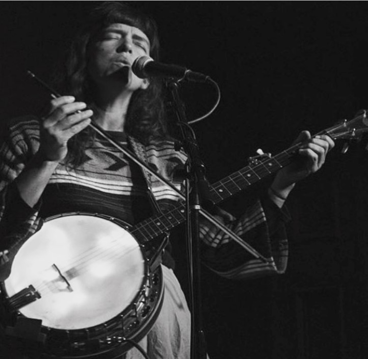 American musician Lindsey Verrill of Little Mazarn playing bowed banjo and singing.